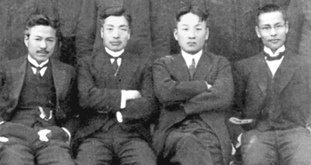 Korean Indifendunce Activist Hyun Sang-yoon, Song Jin-woo, Choi Doo-seon, Kim Seong-soo